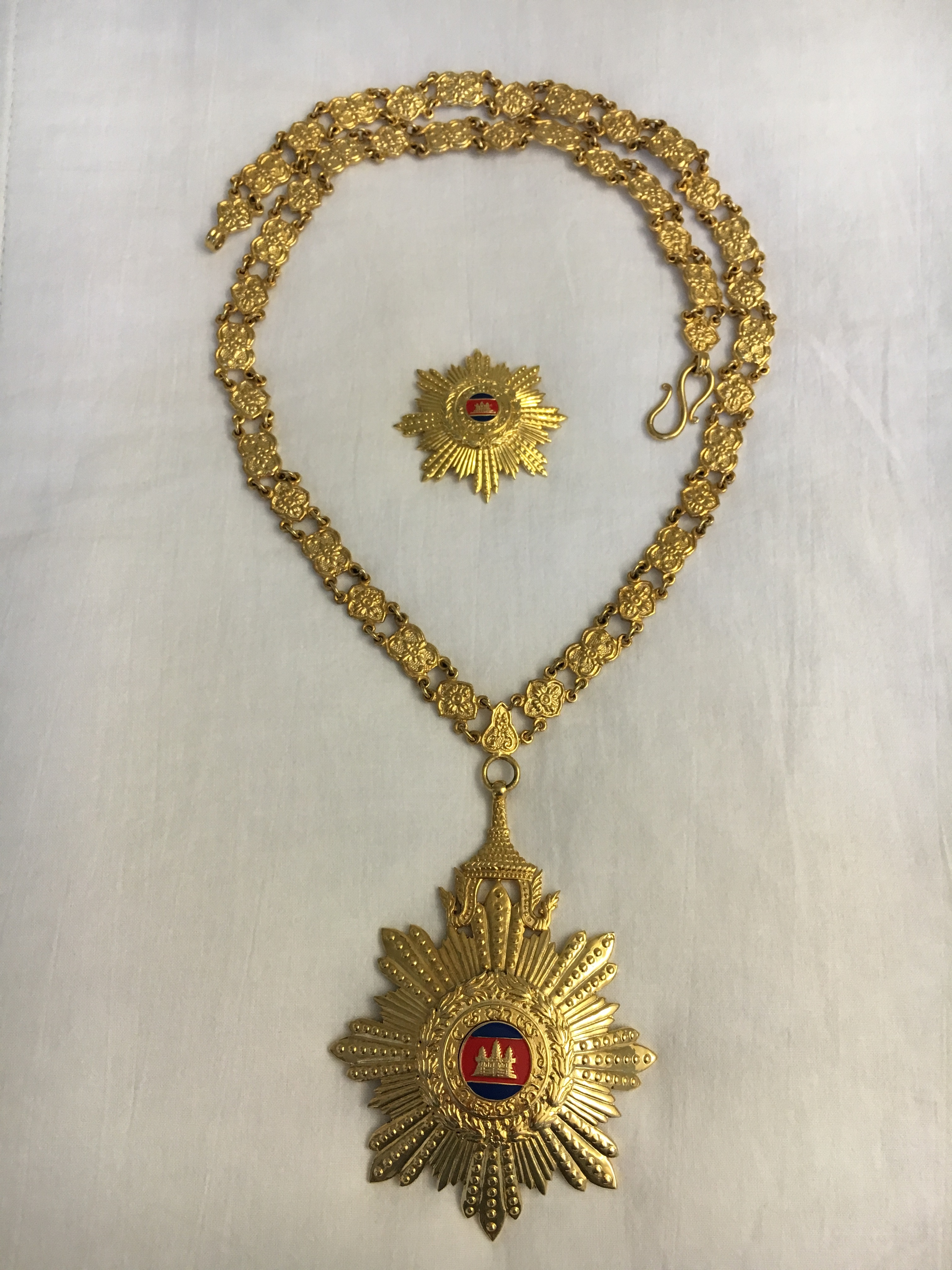 Grand Order National Merit Cambodia Collar